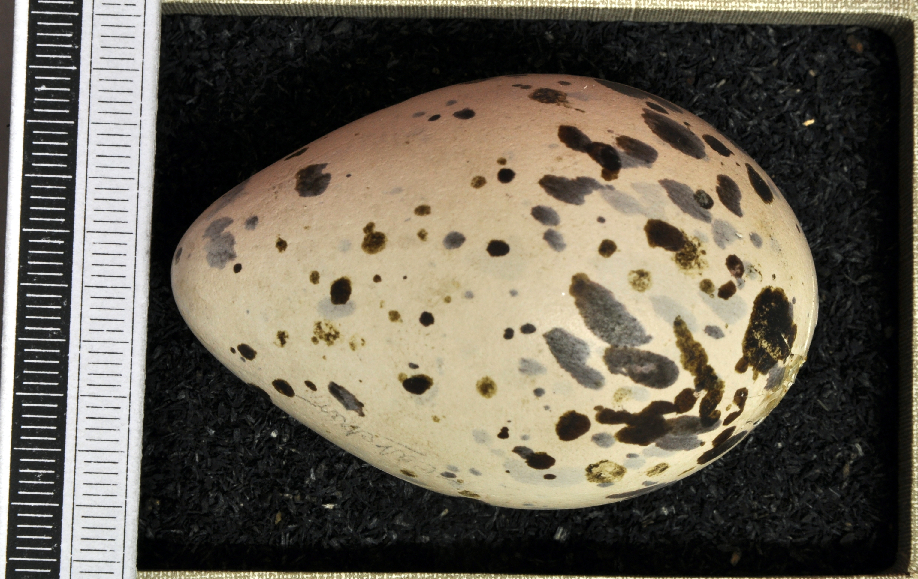 Laughing gull Larus atricilla , egg, Coll. Museum Wiesbaden